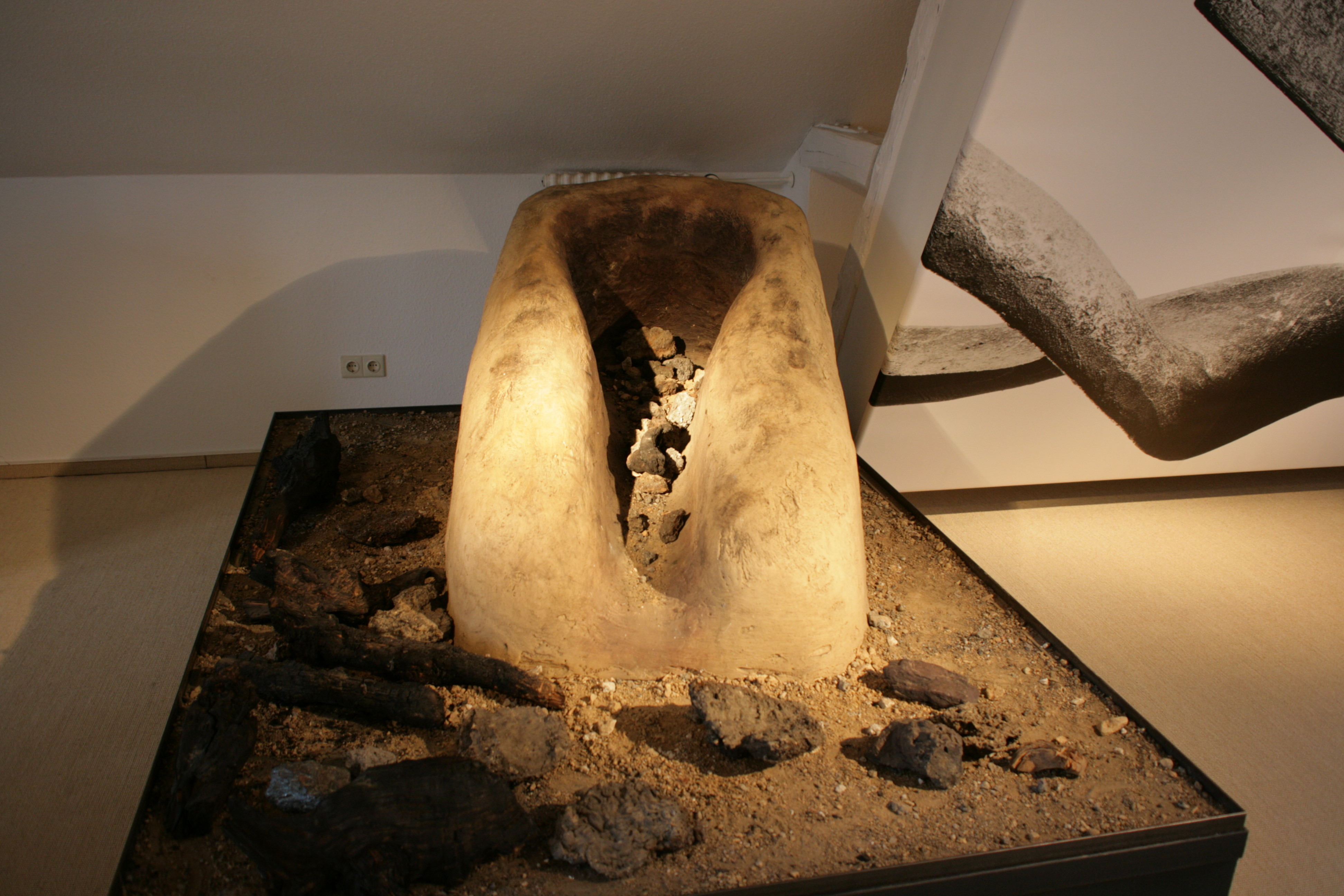 Deutsches Werkzeugmuseum, Cleffstraße 2-6 in Remscheid